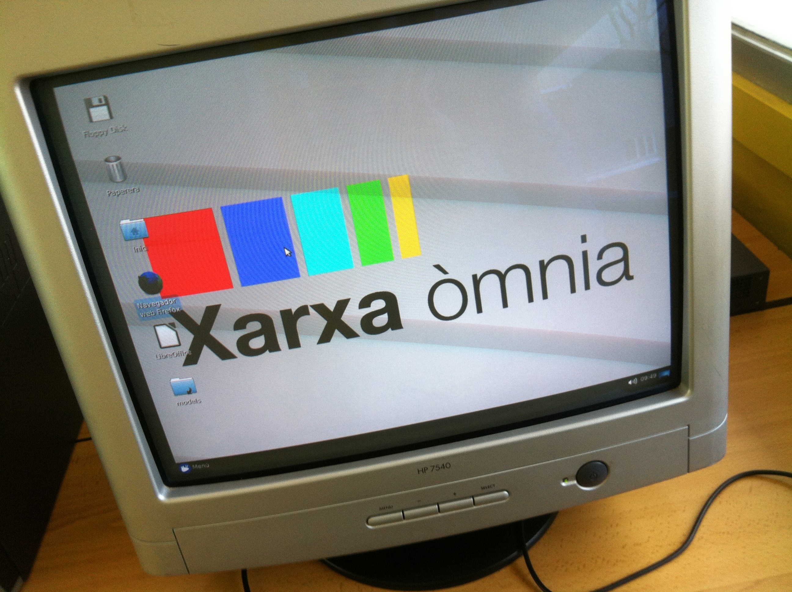 Xarxa òmnia